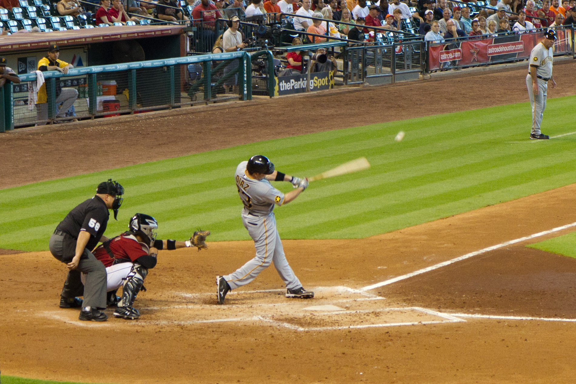 Matt Diaz hitting against the Houston Astros at Minute Maid Park in Houston, on 17 July 2011